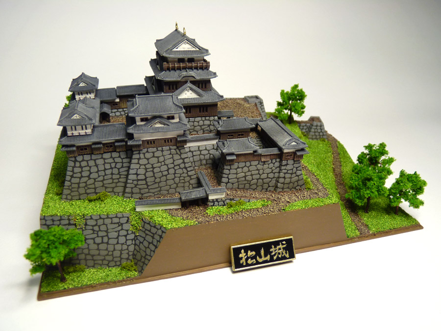 1/450 scale Japanese Matsuyama Castle plastic kit from Doyusha.